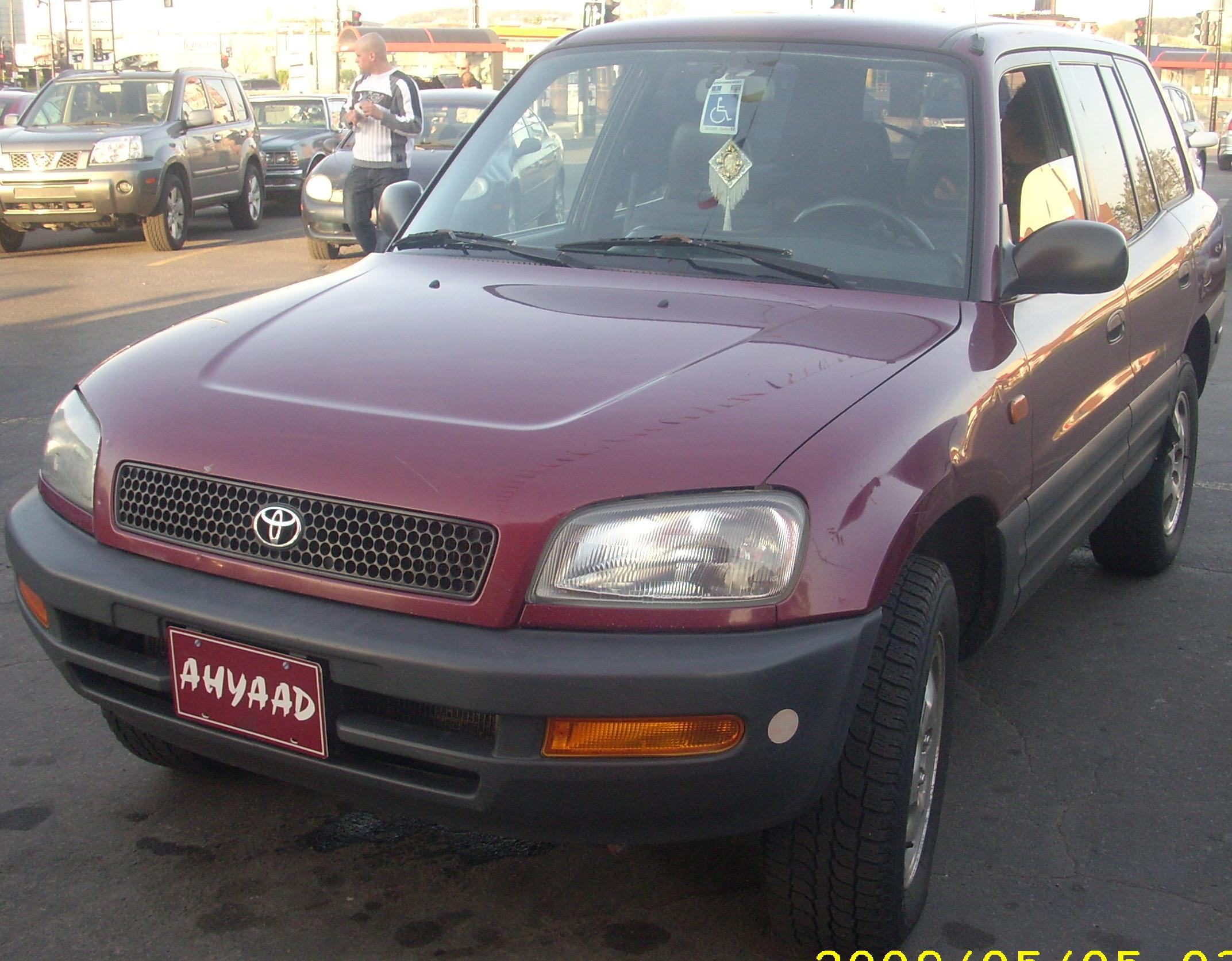 1996-1997 Toyota RAV4 photographed in Montreal, Quebec, Canada at Gibeau Orange Julep.